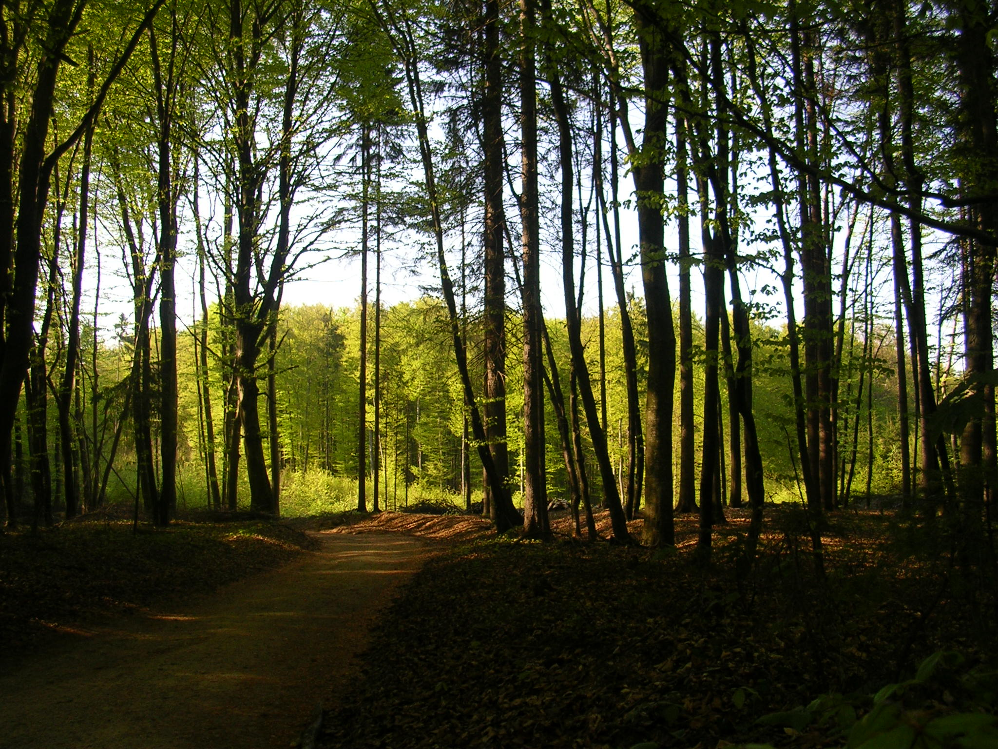 Spring forest on Polževo plateau near Višnja Gora.